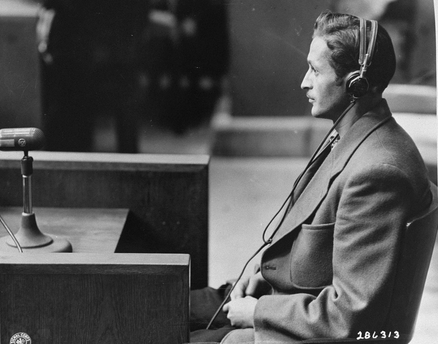 Ernst Mettbach testifies as a witness for defendant Wilhelm Beiglboeck at the Doctors Trial. Mettbach stated he and thirty-nine other Gypsies volunteered for sea-water experiment